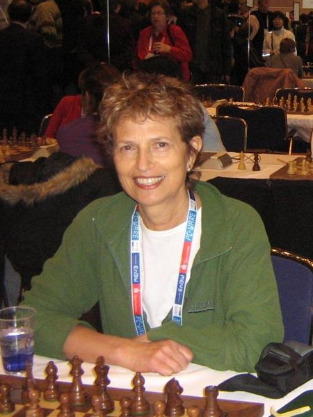 Vivian Smith at the 38th Chess Olympiad in Dresden 2008.